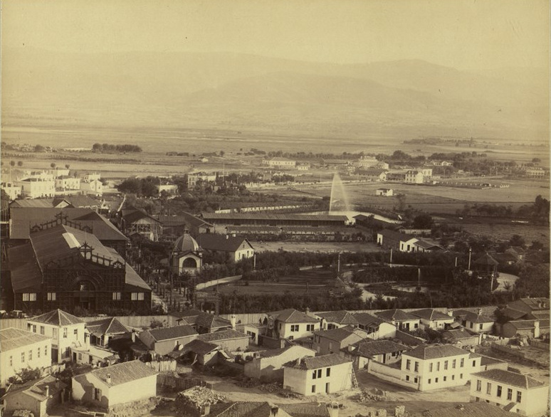 International Fair Plovdiv, Bulgaria, 1892